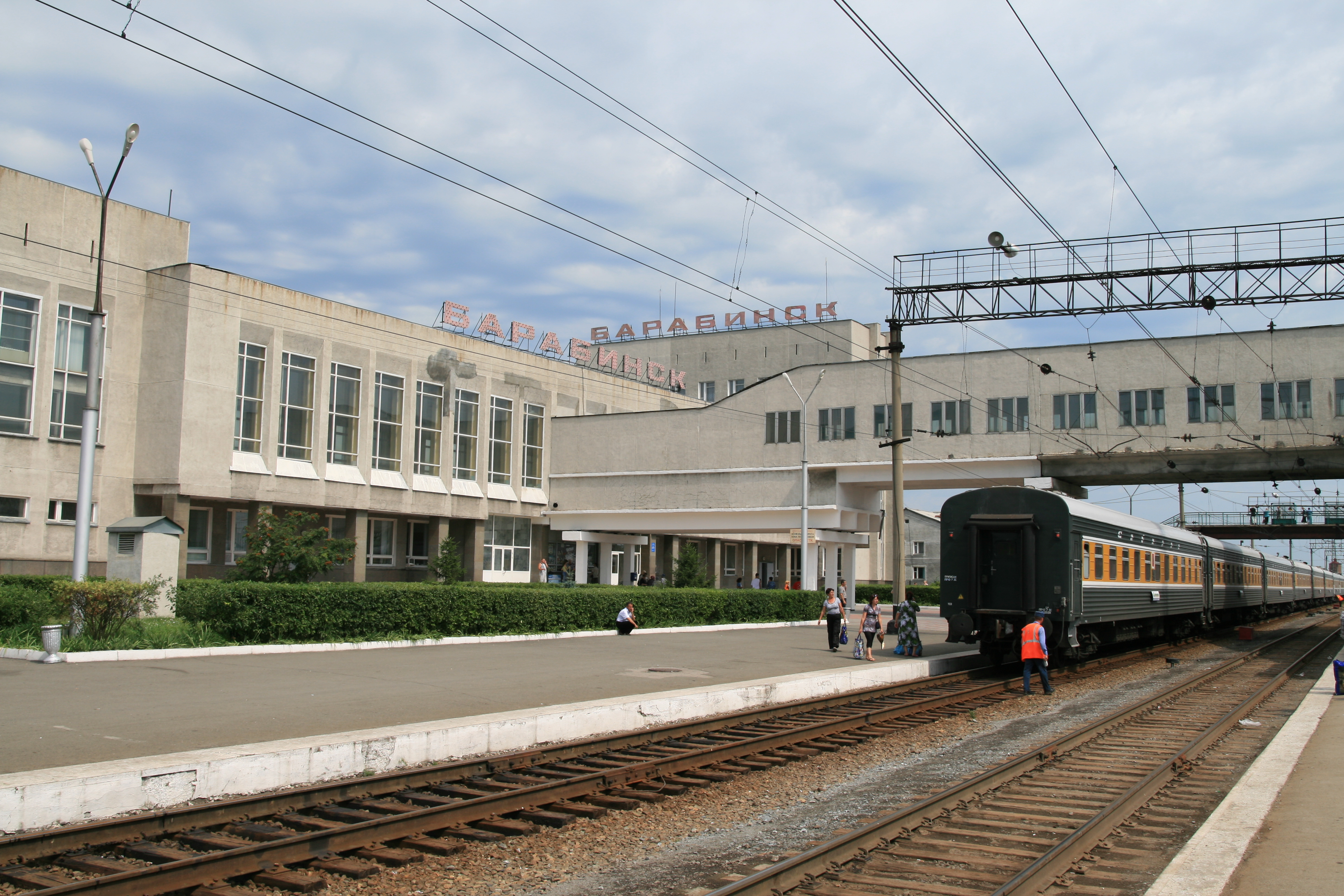 Barabinsk, Novosirbirsk Oblast, Russia. For some reason, Barabinsk railway station was NOT painted pastel green. The exception confirming the rule?